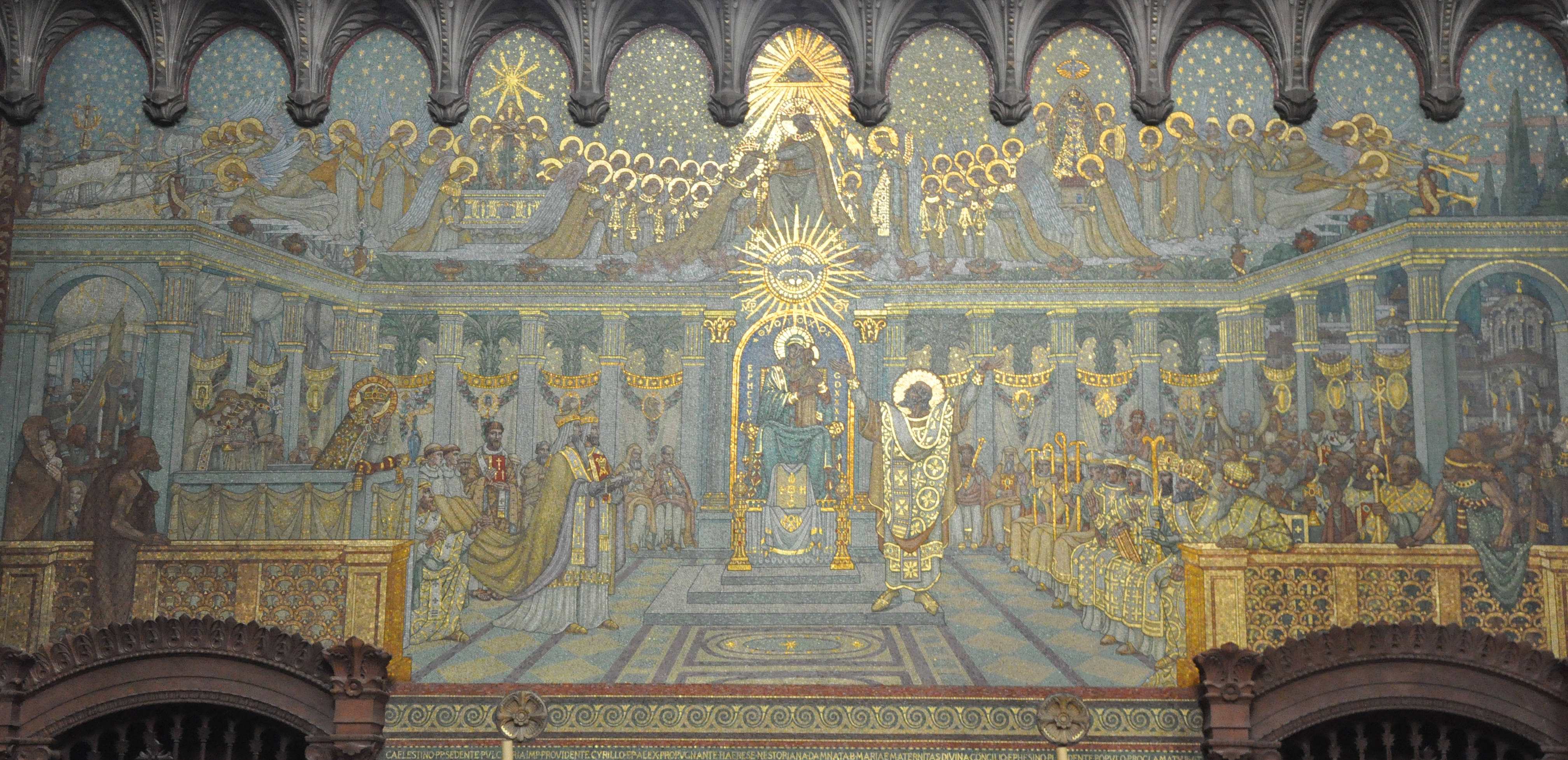 Lyon (France) : Image in church "Notre-Dame de Fourvières". Right in the middle Cyril of Alexandria with Mary and child